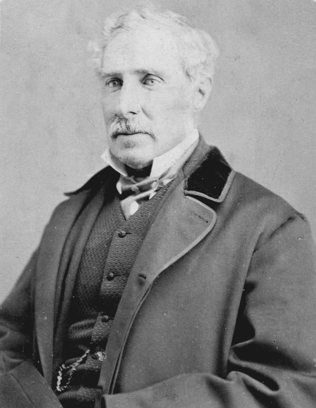 Cabinet portrait of Sir George Grey, Prime Minister of New Zealand.